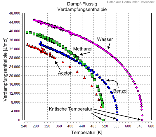 Heat of Vaporization of Water, Methanol, Benzene, and Acetone. Data taken from Dortmund Data Bank. German labels.